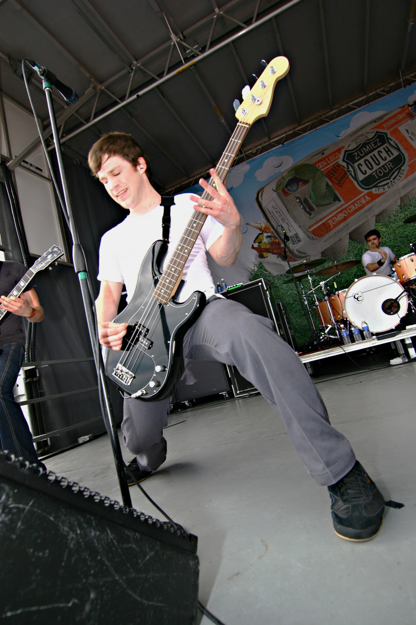 Mike Glita performing with Senses Fail in 2007